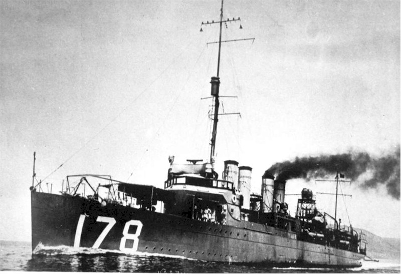 The U.S. Navy destroyer USS Hogan (DD-178) underway, circa in 1920.